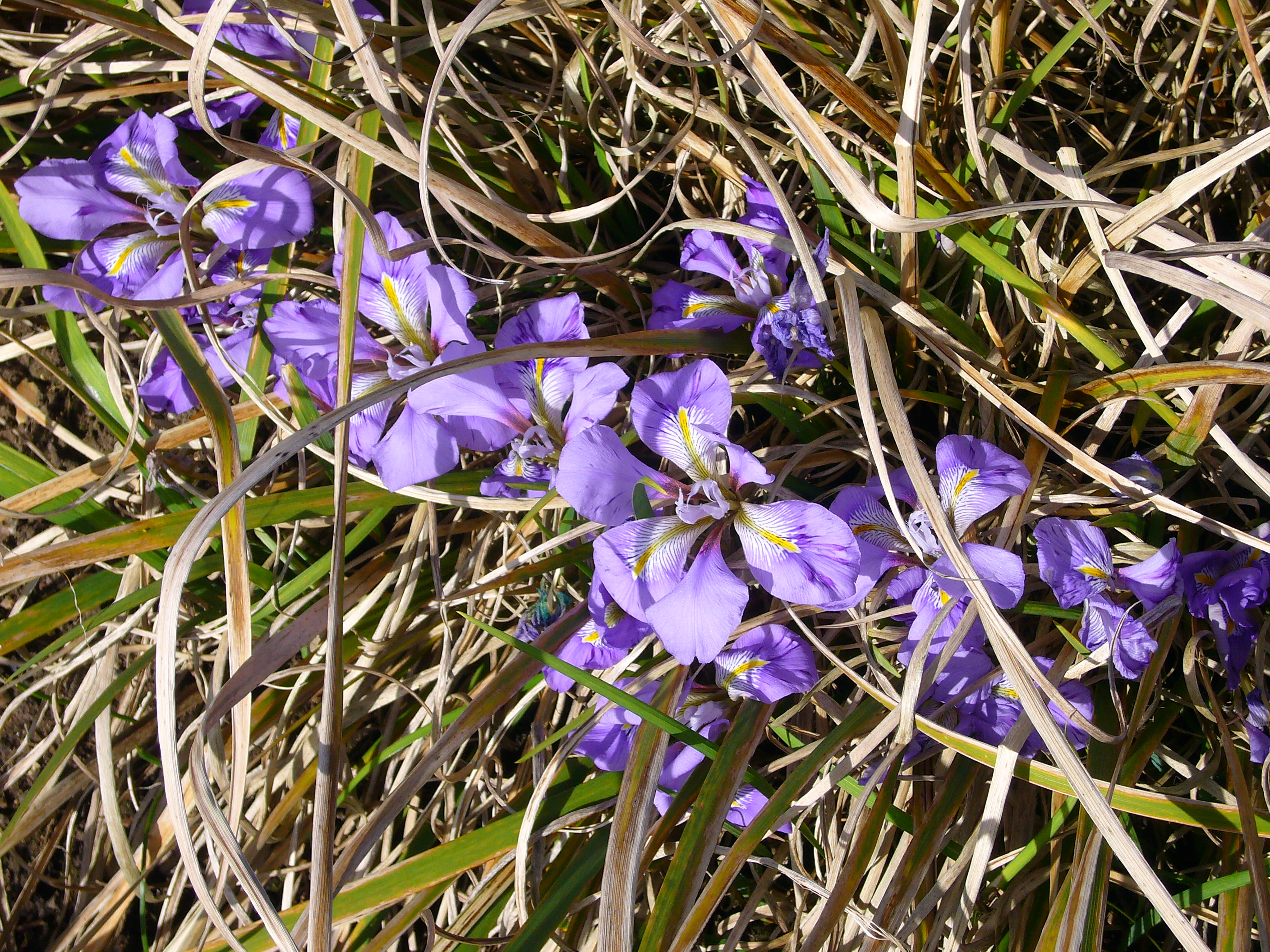 Iris unguicularis, Cambridge University Botanic Garden